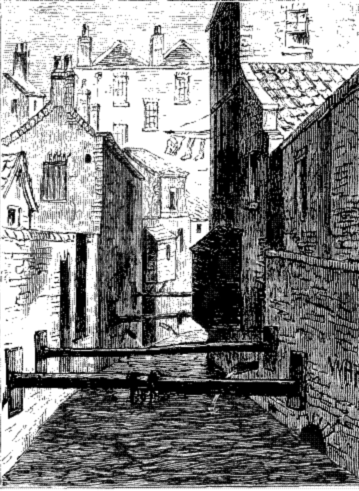 The Fleet River (Ditch) in London, in 1844, shown from the rear of the Red Lion Tavern before its demolition.